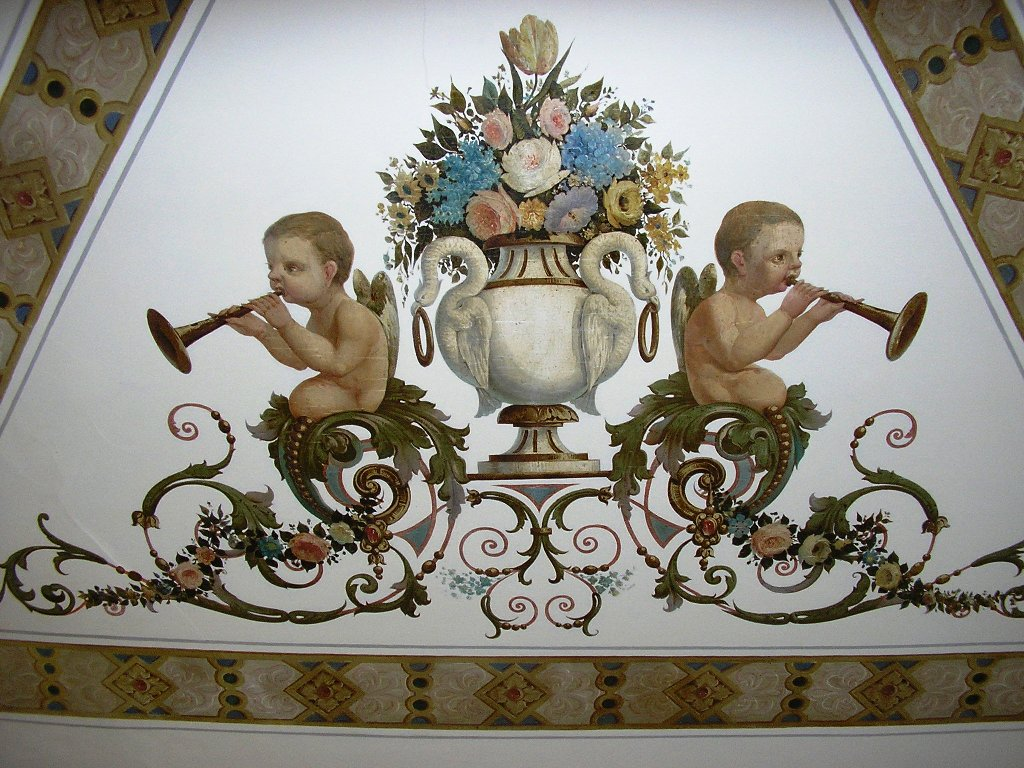 Painting in the ceiling of the former English Club ("Antigo Clube Inglês") in Porto, Portugal.